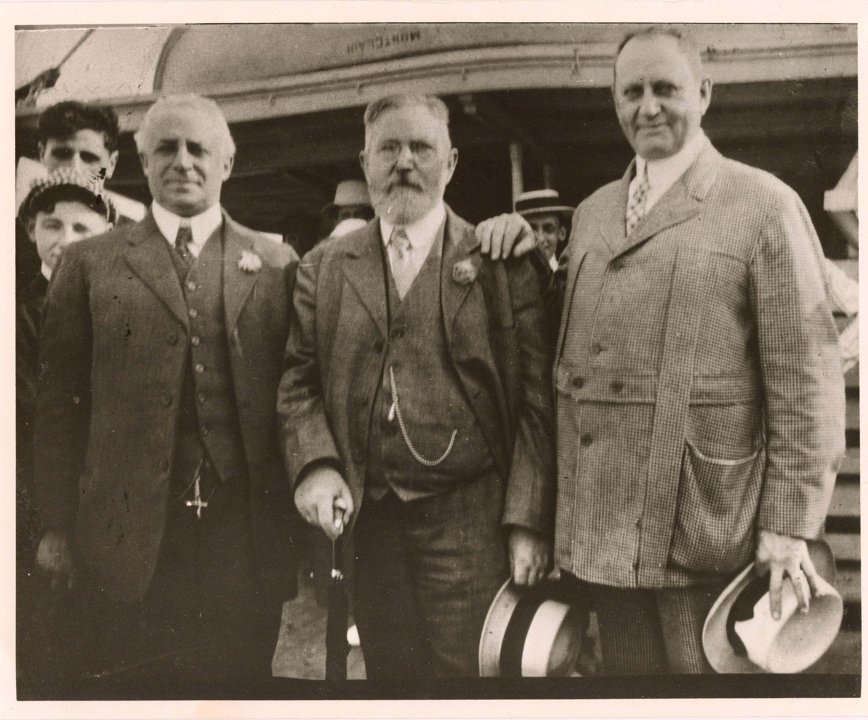 Picture of Alexander Henderson (L), Adolph Goetting (C), and David H. McConnell, Sr.(R) ~1914